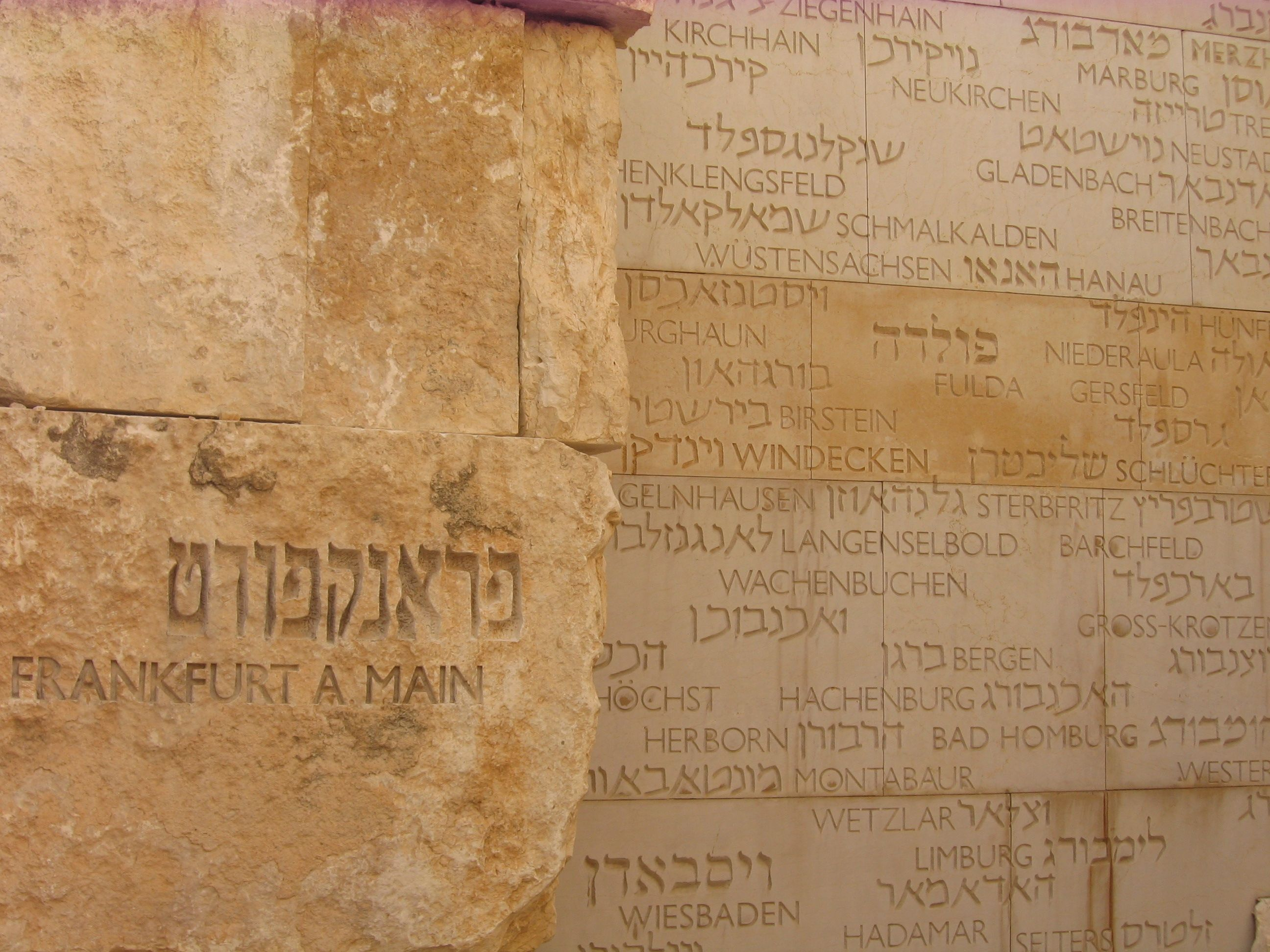 Valley of the Communities, Yad Vashem: Inscription for the communities of Frankfurt am Main and other Hessian places